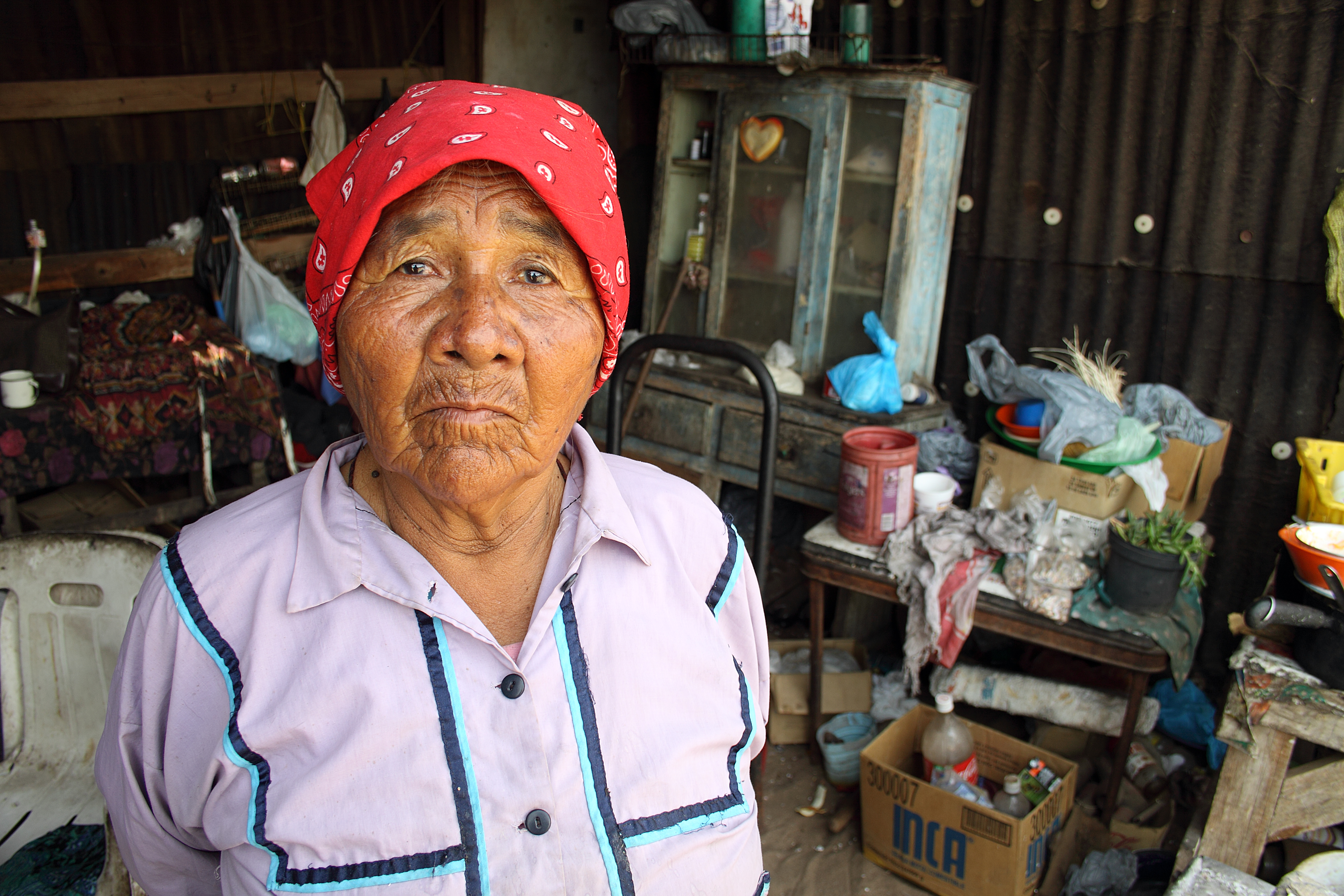 Doña Juanita, a Seri indian medicine woman. Picture taken in Punta Chueca, Sonora, Mexico.